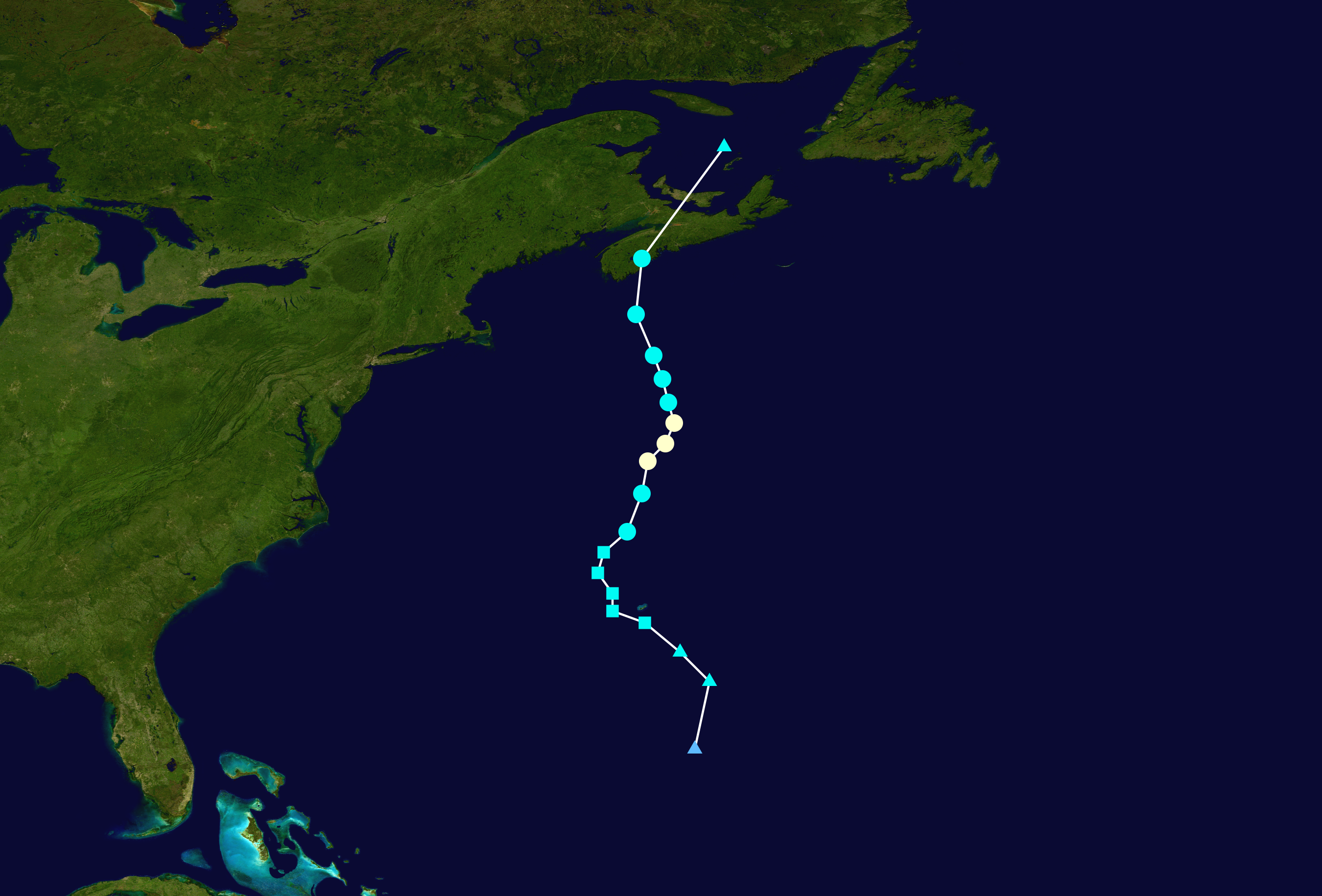 Track map of Hurricane Karen of the 2001 Atlantic hurricane season. The points show the location of the storm at 6-hour intervals. The colour represents the storm's maximum sustained wind speeds as classified in the Saffir–Simpson scale (see below), and the shape of the data points represent the nature of the storm, according to the legend below. Saffir–Simpson scale Tropical depression≤38 mph≤62 km/h Category 3111–129 mph178–208 km/h Tropical storm39–73 mph63–118 km/h Category 4130–156 mph209–251 km/h Category 174–95 mph119–153 km/h Category 5≥157 mph≥252 km/h Category 296–110 mph154–177 km/h Unknown Storm type Tropical cyclone Subtropical cyclone Extratropical cyclone / Remnant low / Tropical disturbance / Monsoon depression